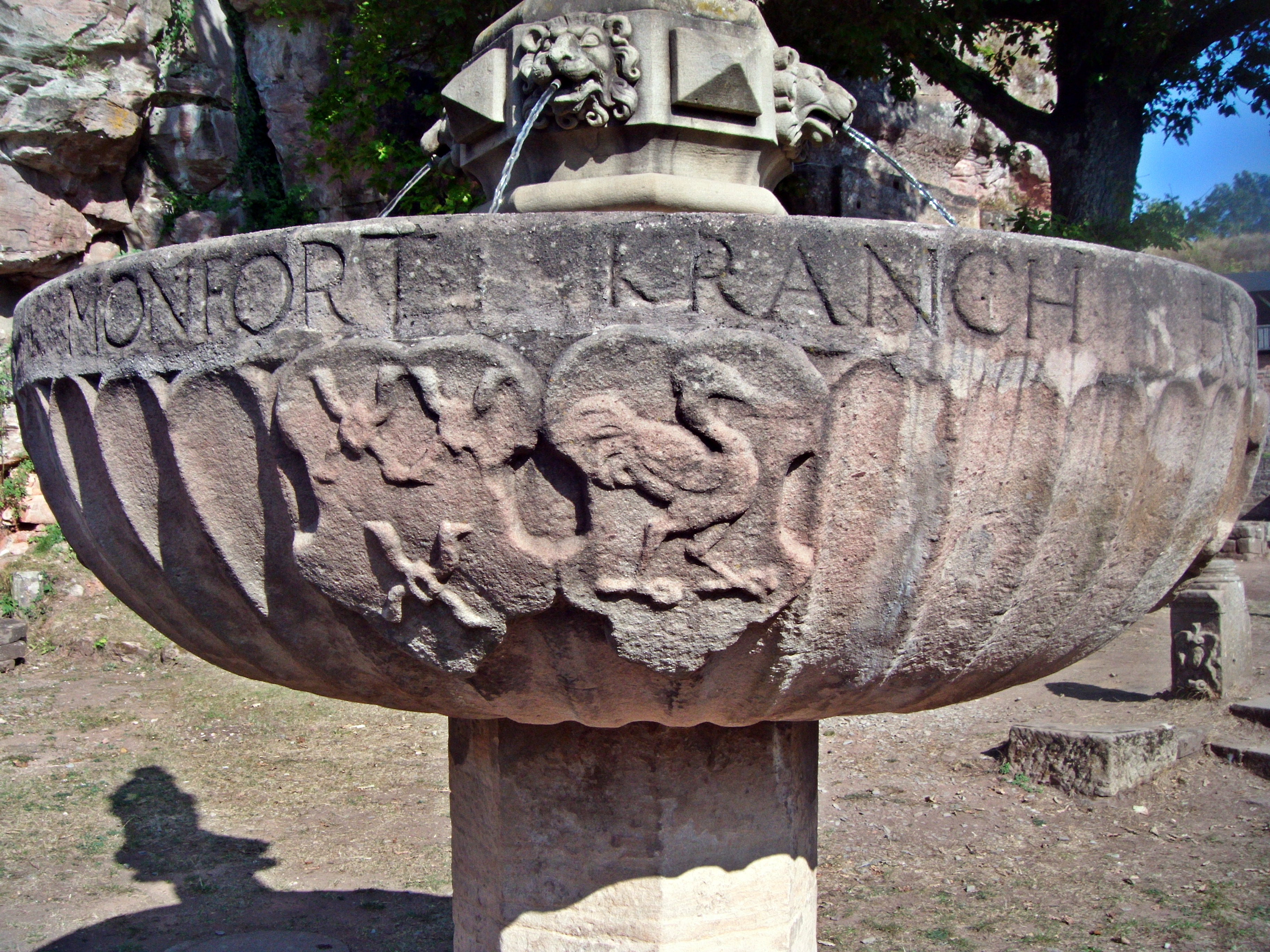 Burg Nanstein, Kranich von Kirchheim Wappen an Brunnenschale